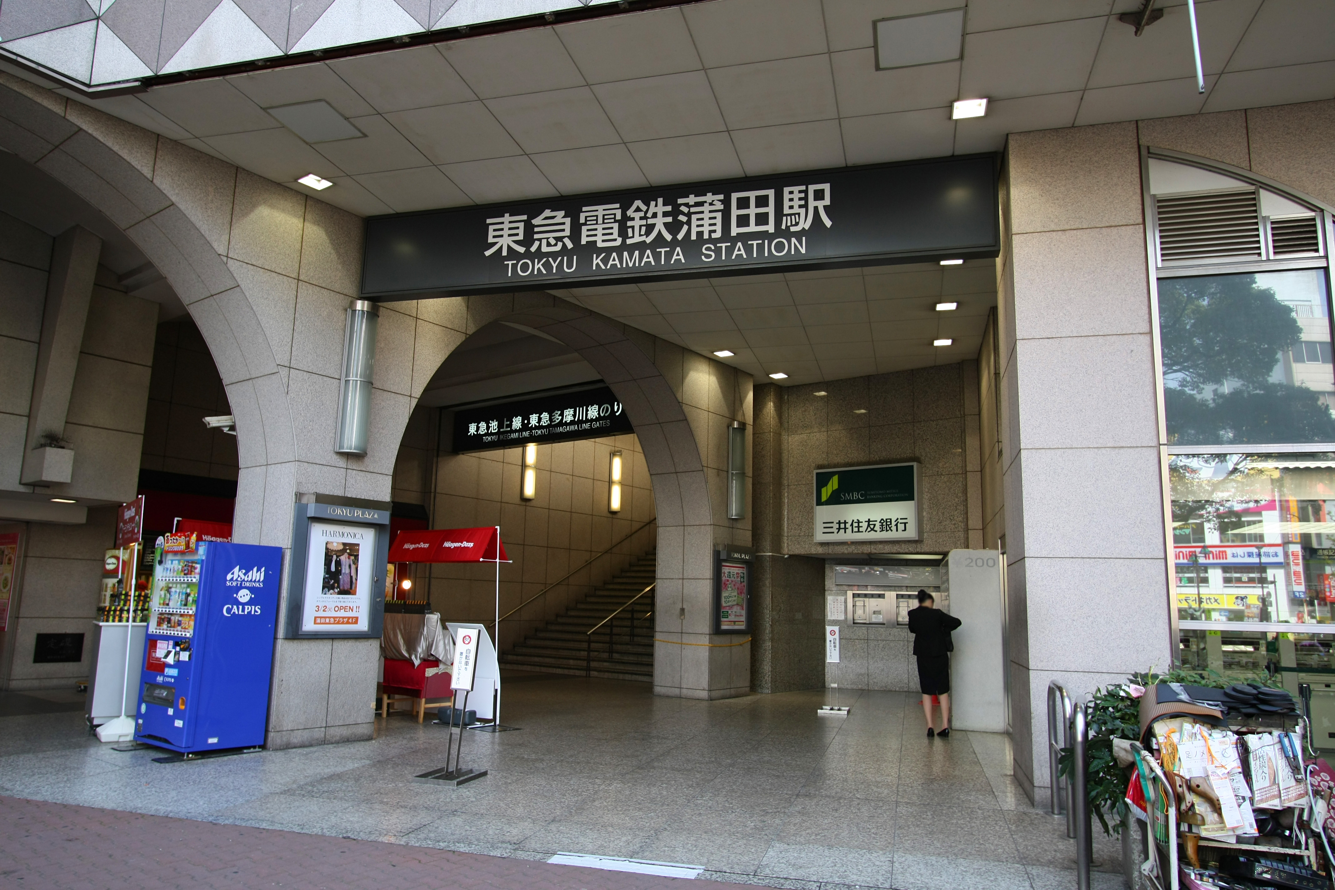 Tokyu Kamata Station Entrance